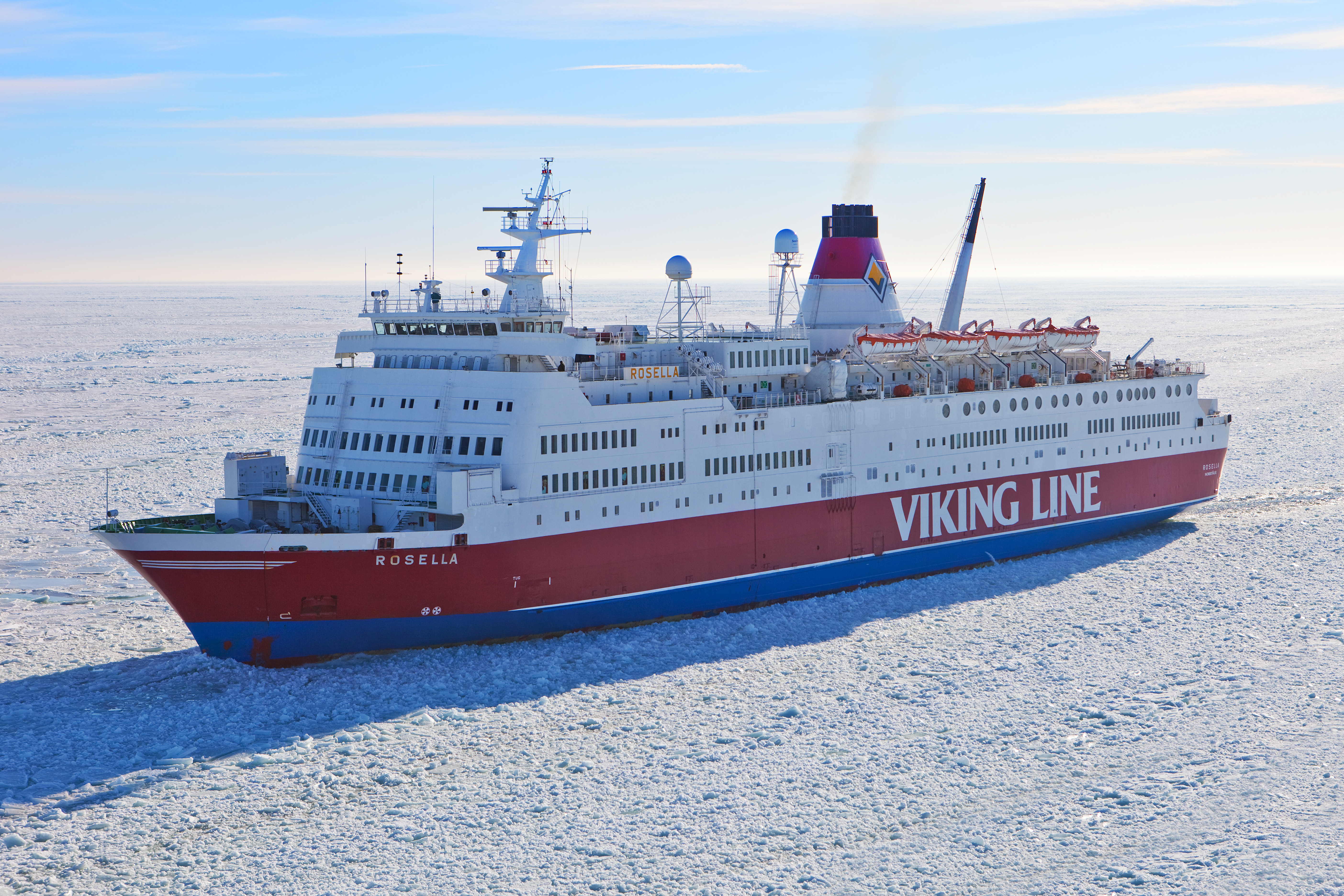 MS Rosella going from Stockholm to Åland through the archipelago in winter